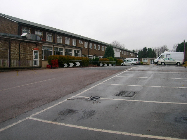 Amberstone Hospital, near Hailsham. Small hospital without Accident or Emergency the extant of which can be seen in the picture. This view looks west from the car park entrance.